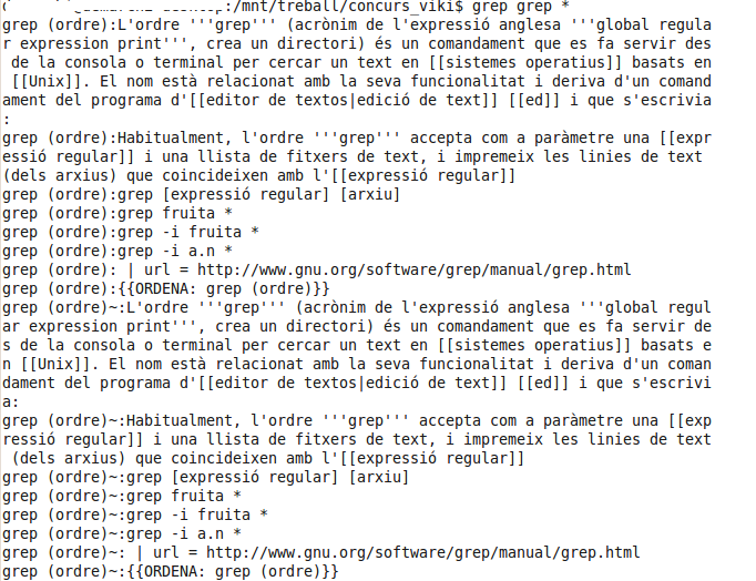 The grep command working